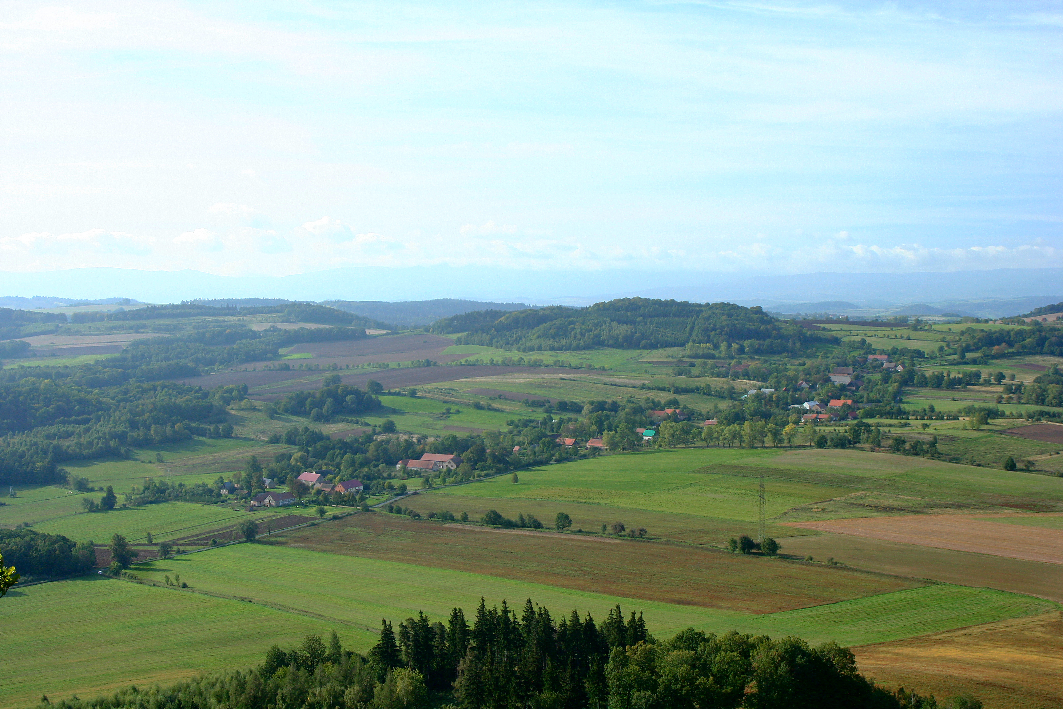 View of Bełczyna village from extinct volcano Ostrzyca (501 m) near Wleń, Lower Silesia, Poland.